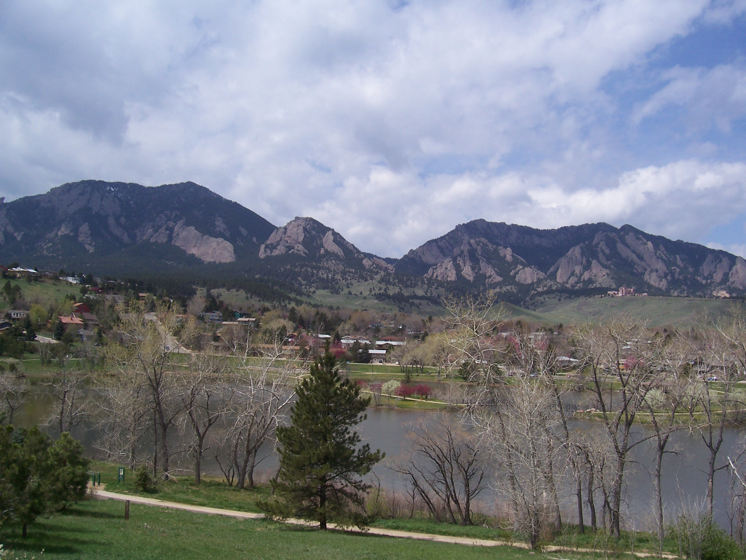 This is the view from outside the Fairview High School library. I took it so anyone can use it.